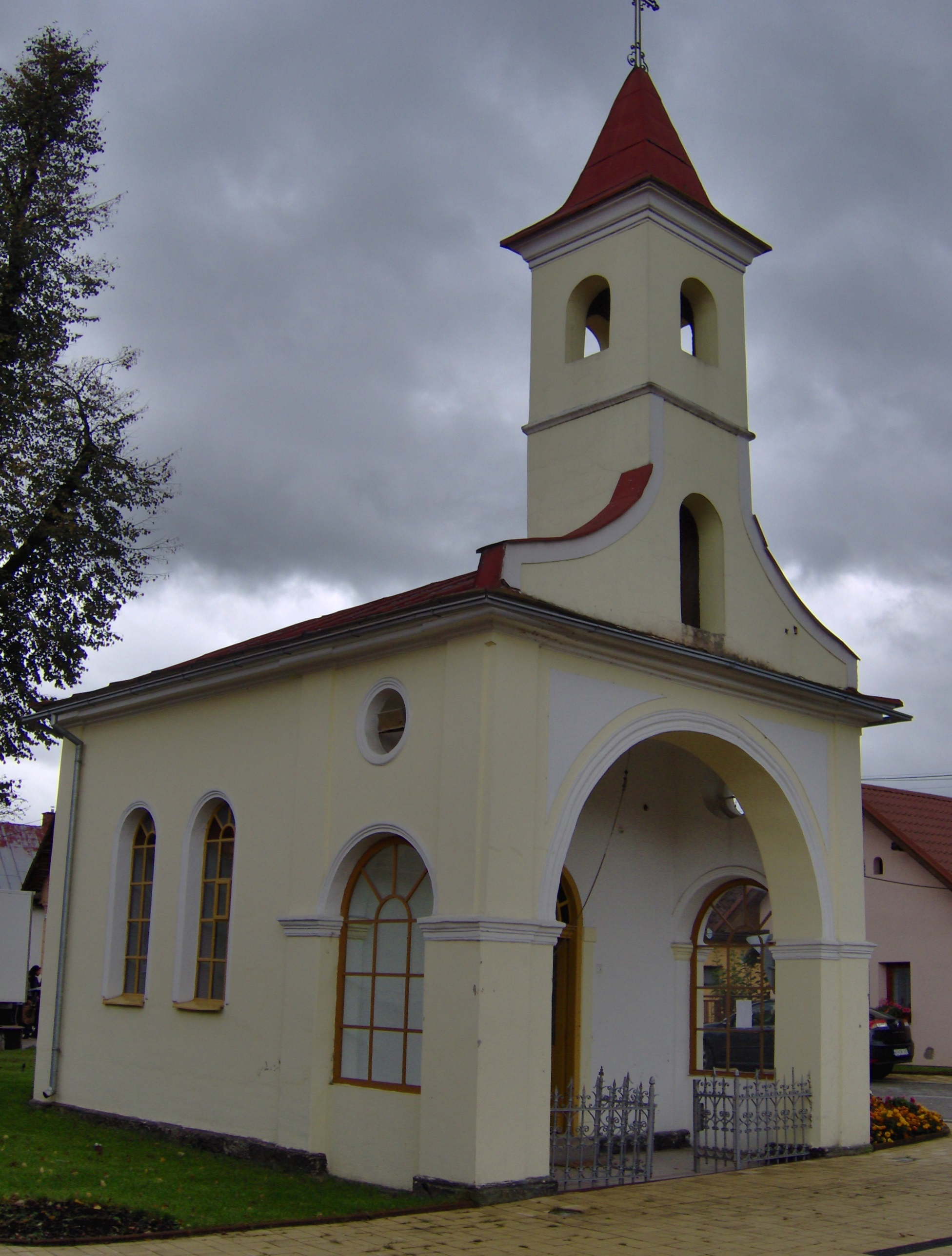 Horný Hričov, chapel , 1899